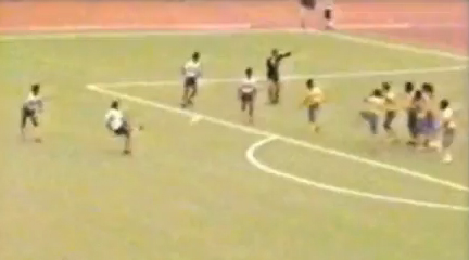 Match between Al-Raed and Al-Taawon in 1986.